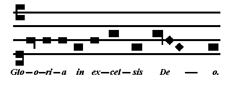 PNG of a piece of plainchant from James Joyce's Ulysses